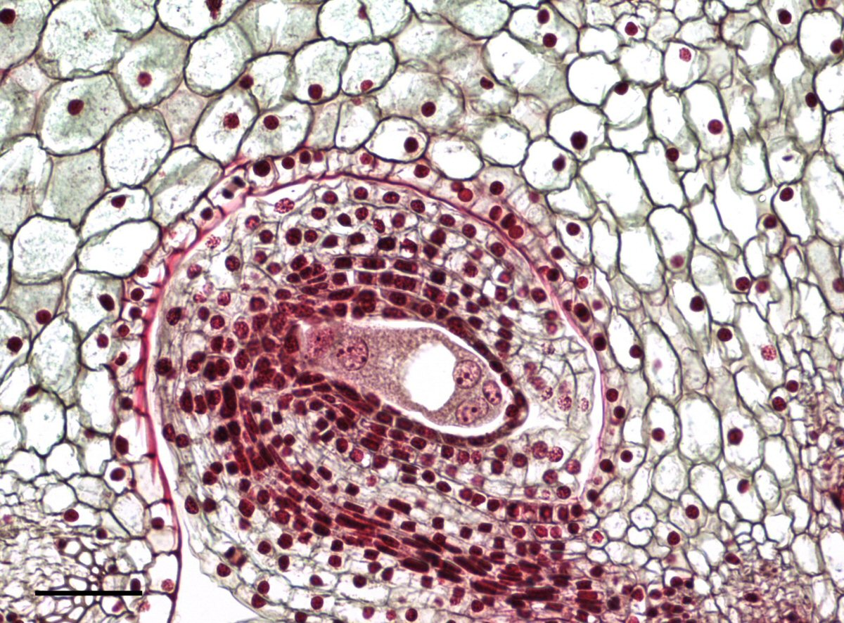 Photomicrograph of an eight nuclei Lilium embryo. Scale=0.1mm.